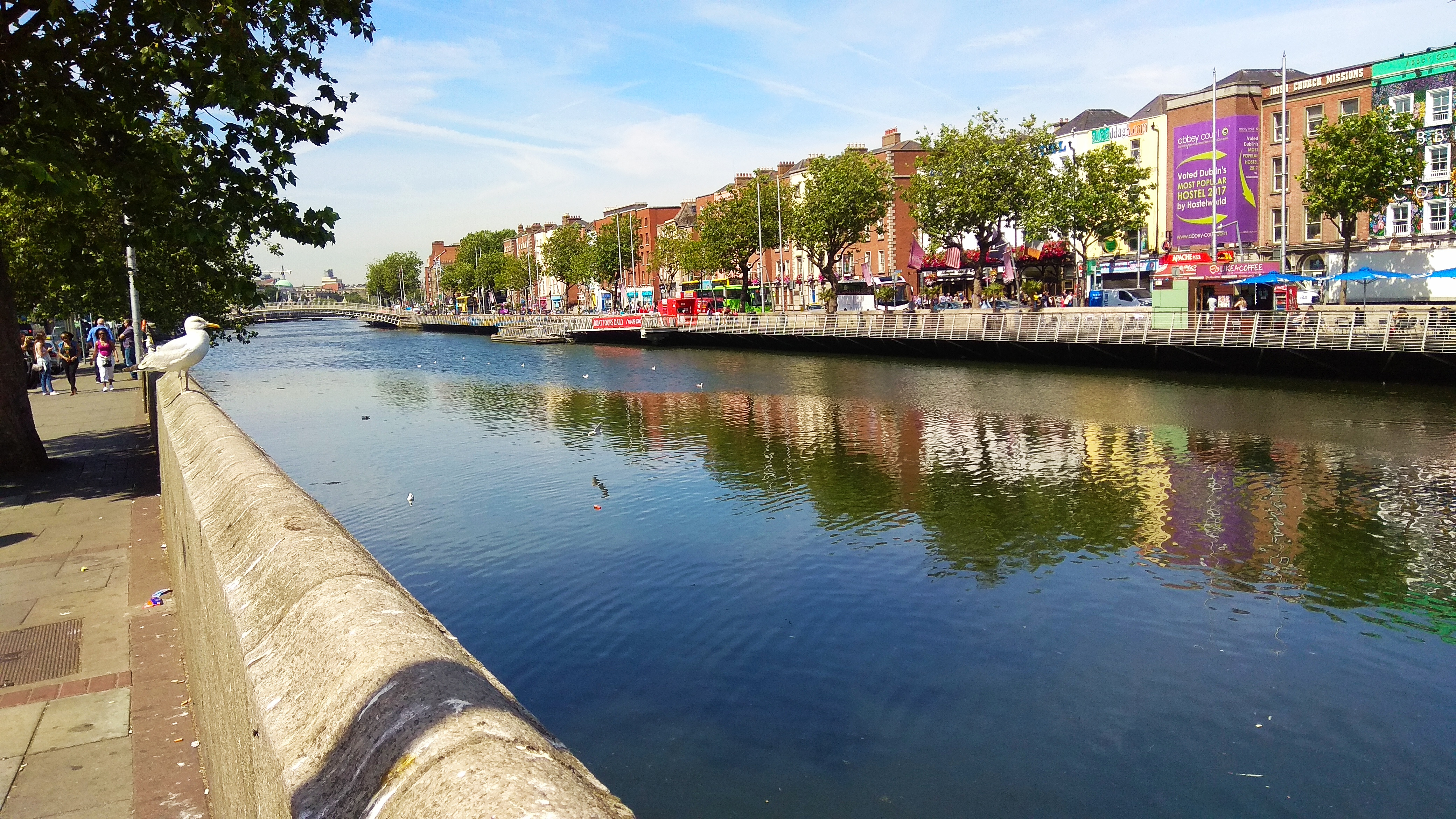 River Liffey